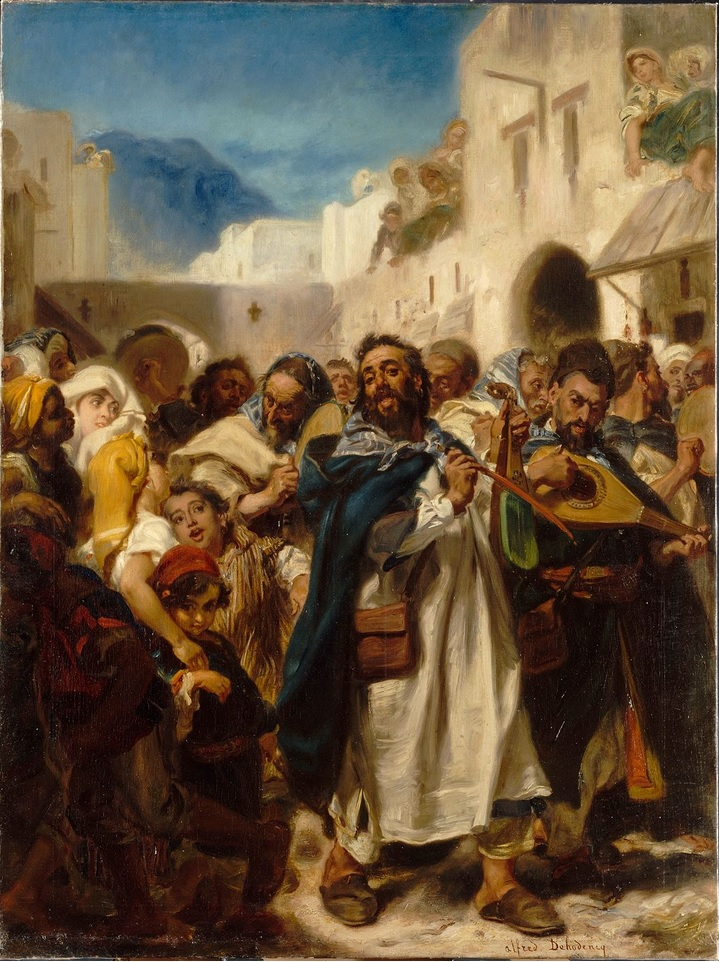 Fête juive à Tétouan (Jewish Festival in Tetuan) , Alfred Dehodencq, 1865